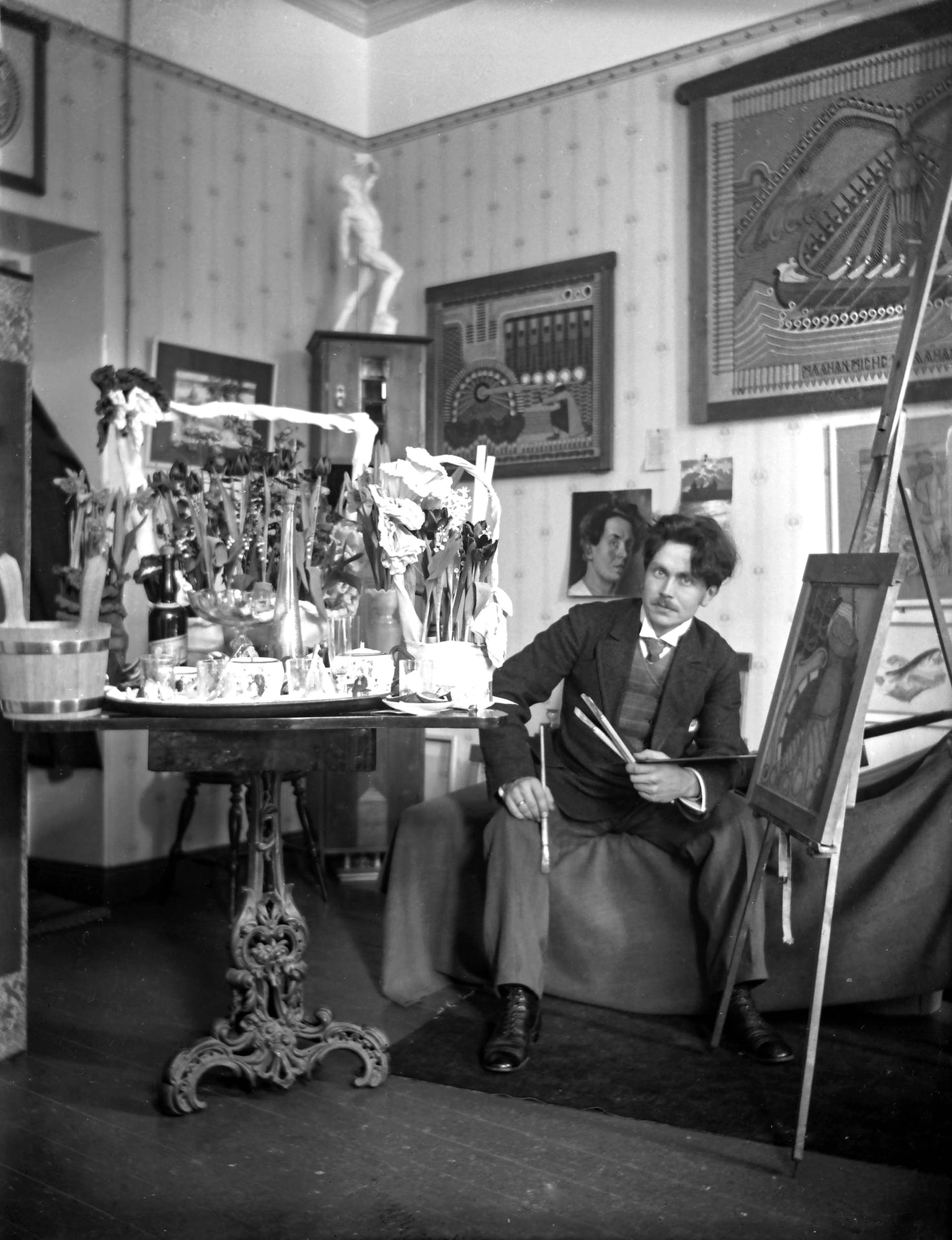 Photograph of the Finnish painter Joseph Alanen (1885–1920) at his study in Tampere, Finland.